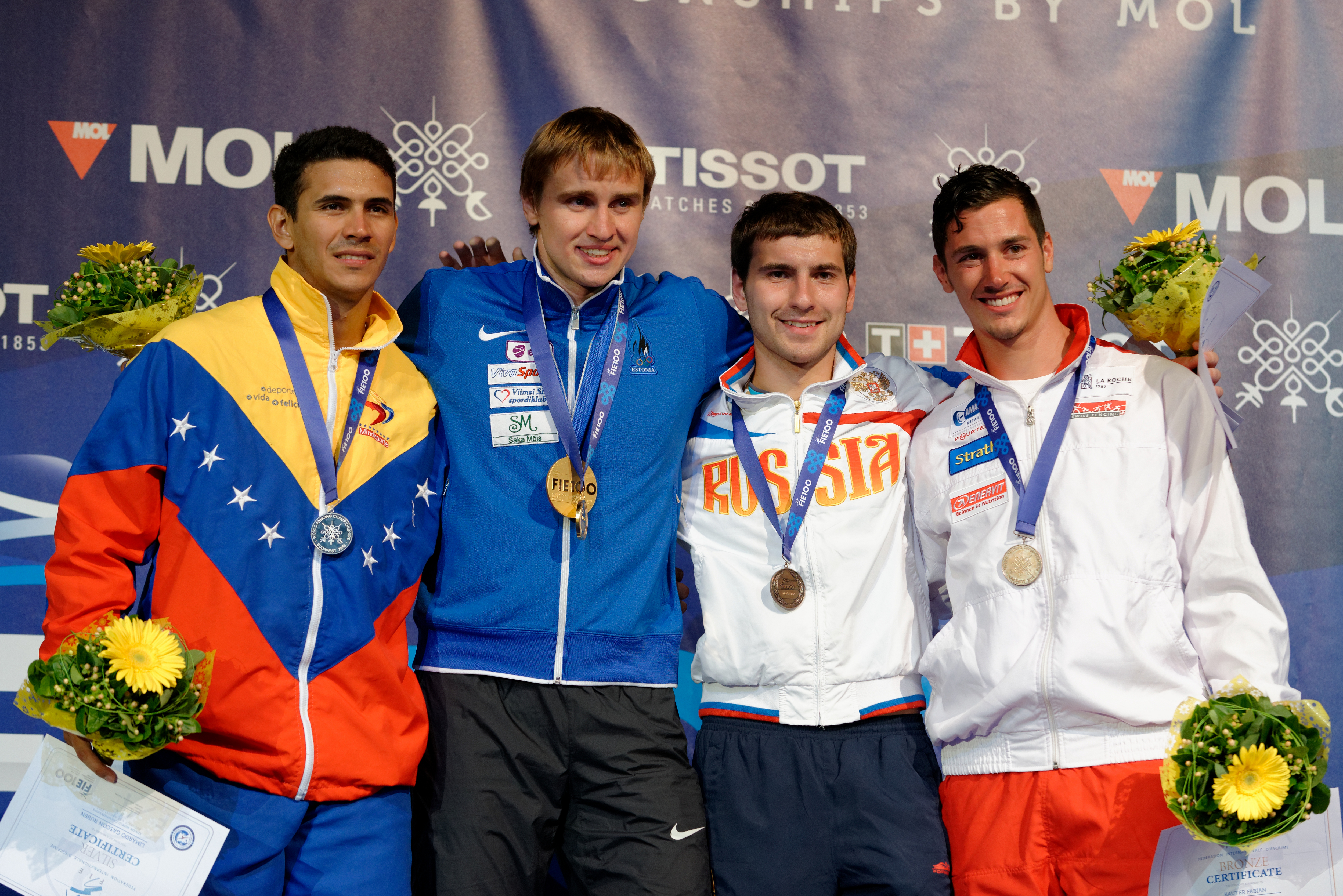 From left to right, Rubén Limardo, Nikolai Novosjolov, Pavel Sukhov, and Fabian Kauter on the podium of the men's épée event in the 2013 World Fencing Championships 2013 at Syma Hall in Budapest, 8 August 2013.